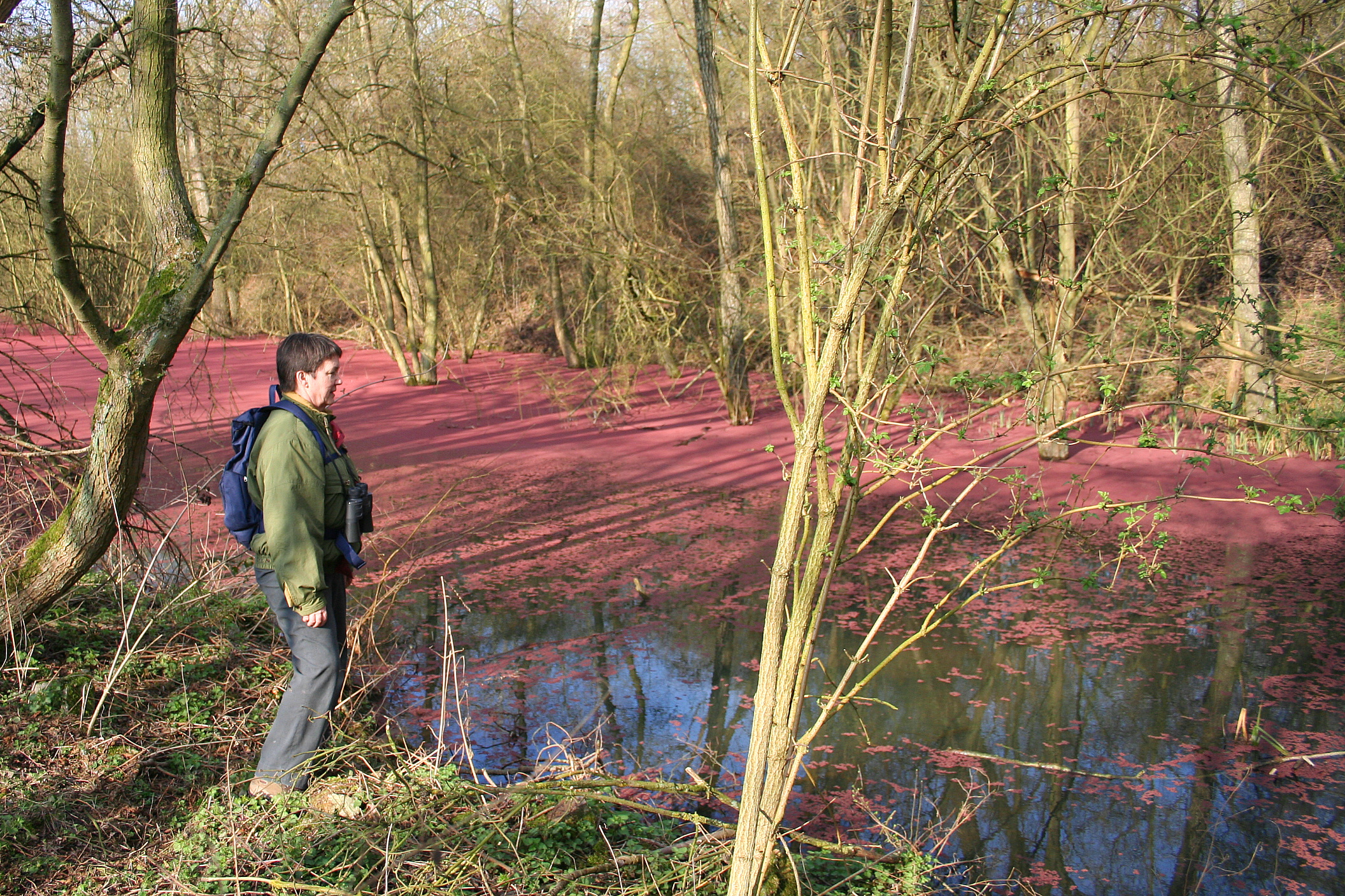 Harchies (Belgium), Chemin des Maillettes – Little pond in part covered by little parts of poplars male catkins. Walon: Harchîyes (Bèljike), Tchmin dès Mayètes – Frèchaus èt paurtîye rascovru pa dès pitits bokèts d’maules di minous d'nwârès plopes.